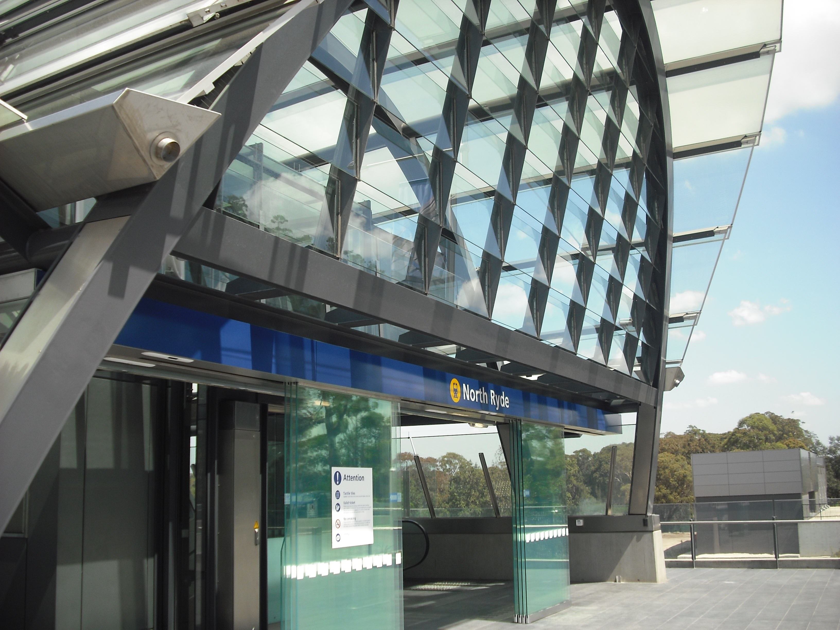 .jpg file